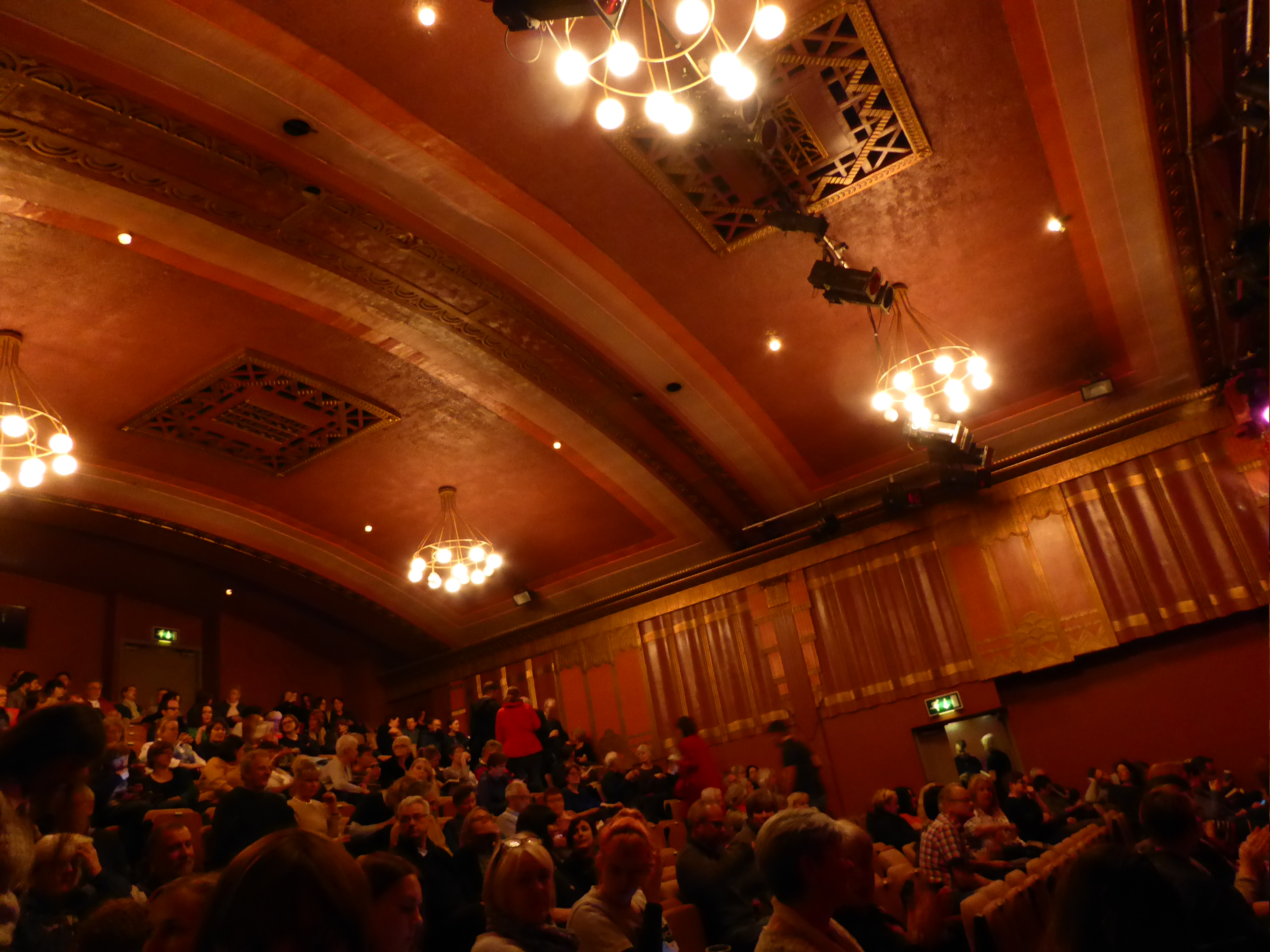 The Dancehouse, Oxford Road, Manchester, Greater Manchester, England, October 2016